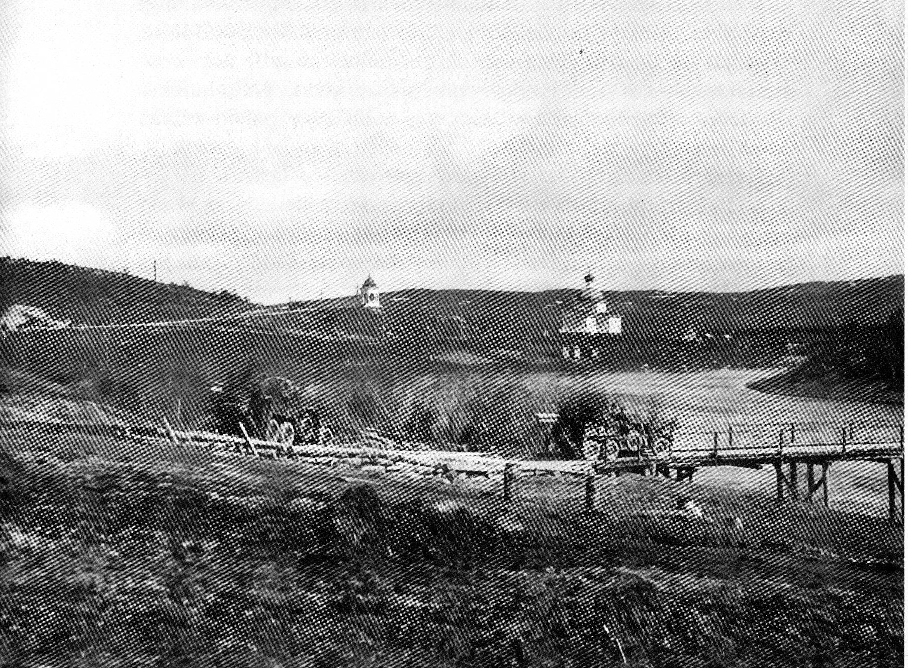 First German vehicles going over Petsamo River (Petsamo, FInland) during the attack to Soviet Union.. Source p. 345